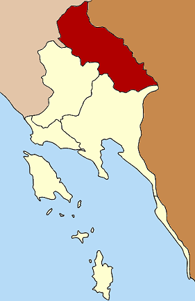 Map of Trat province, Thailand, highlighting Amphoe Bo Rai (geocode 2304).